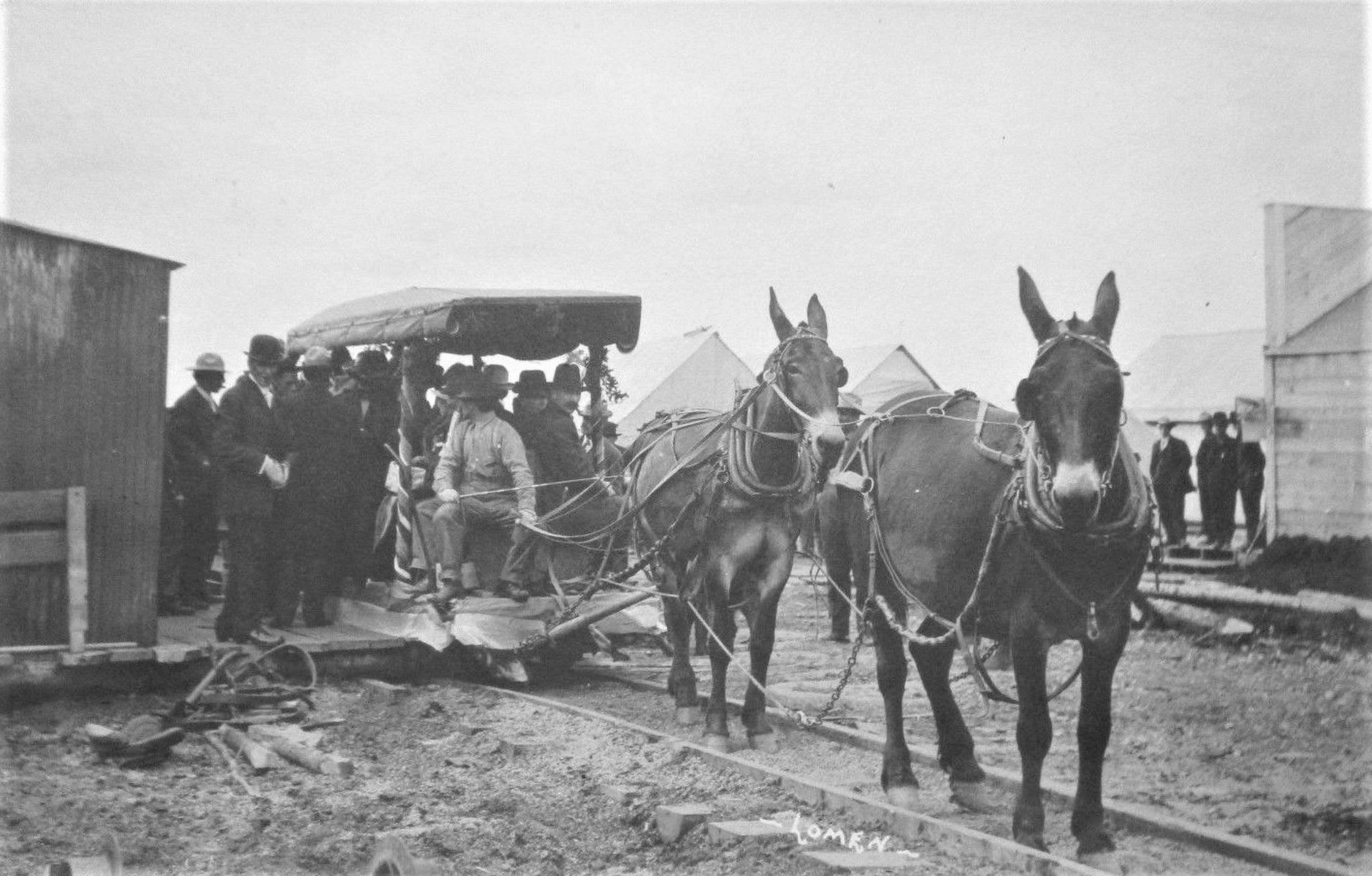 Mule tram to Flat City, Alaska